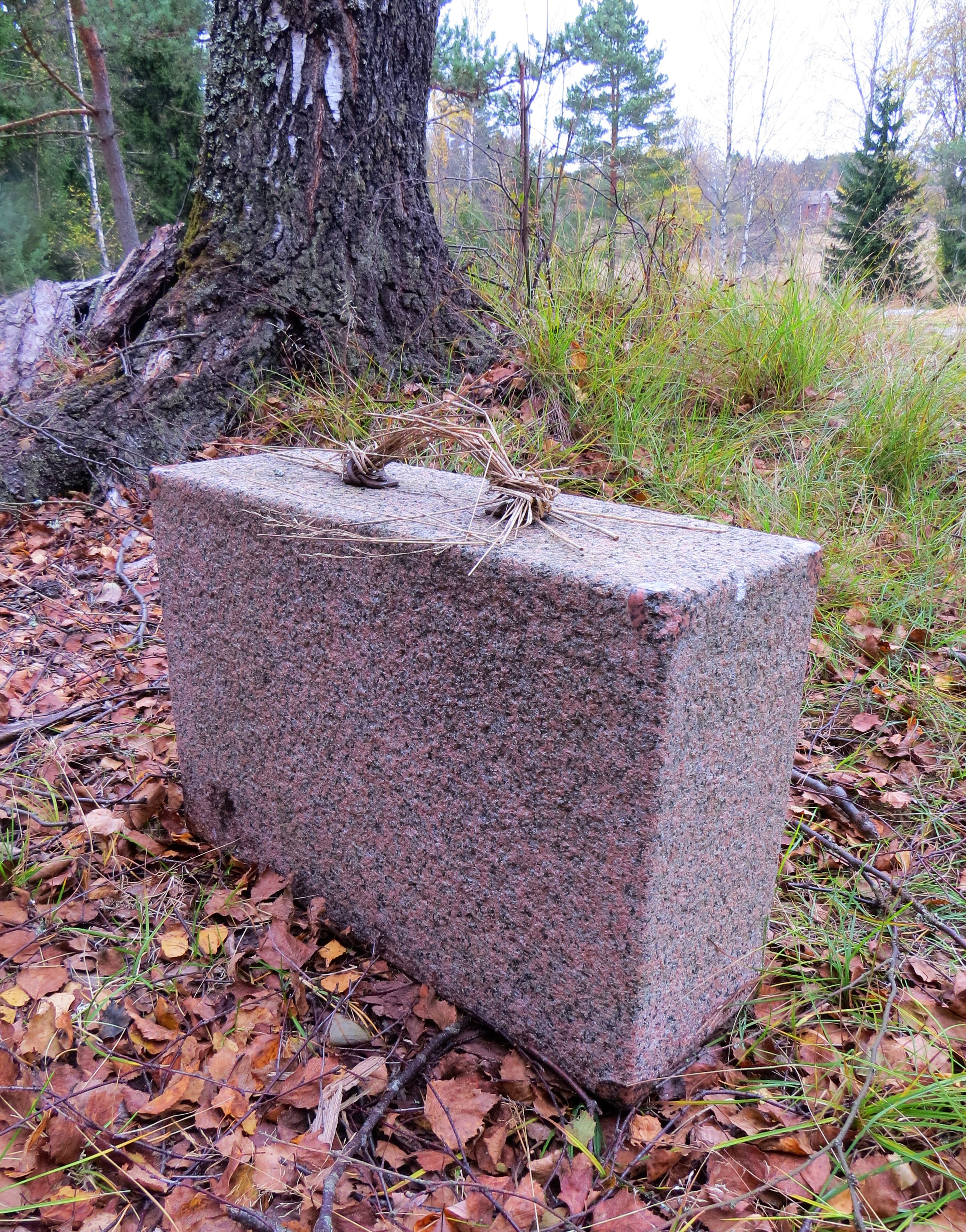 Zoltan Popovits - Emigration (1992)